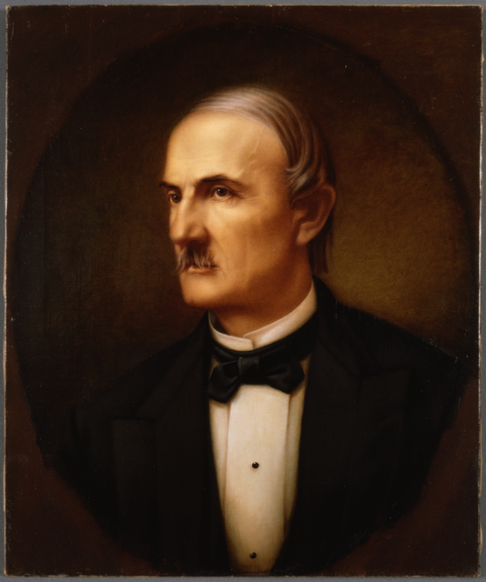 Oil painting of Henry H. Sibley Painter: John P. Bligh Art Collection, Oil ca. 1860 Location no. AV1988.45.153 Negative no. 84621 Cropped from original image.